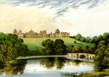 Blenheim Palace Baxter print c1880